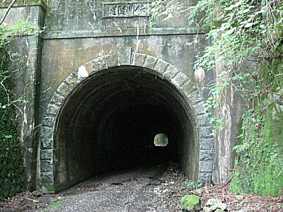 Yanoko Pass. Canon IXY Digital 1000